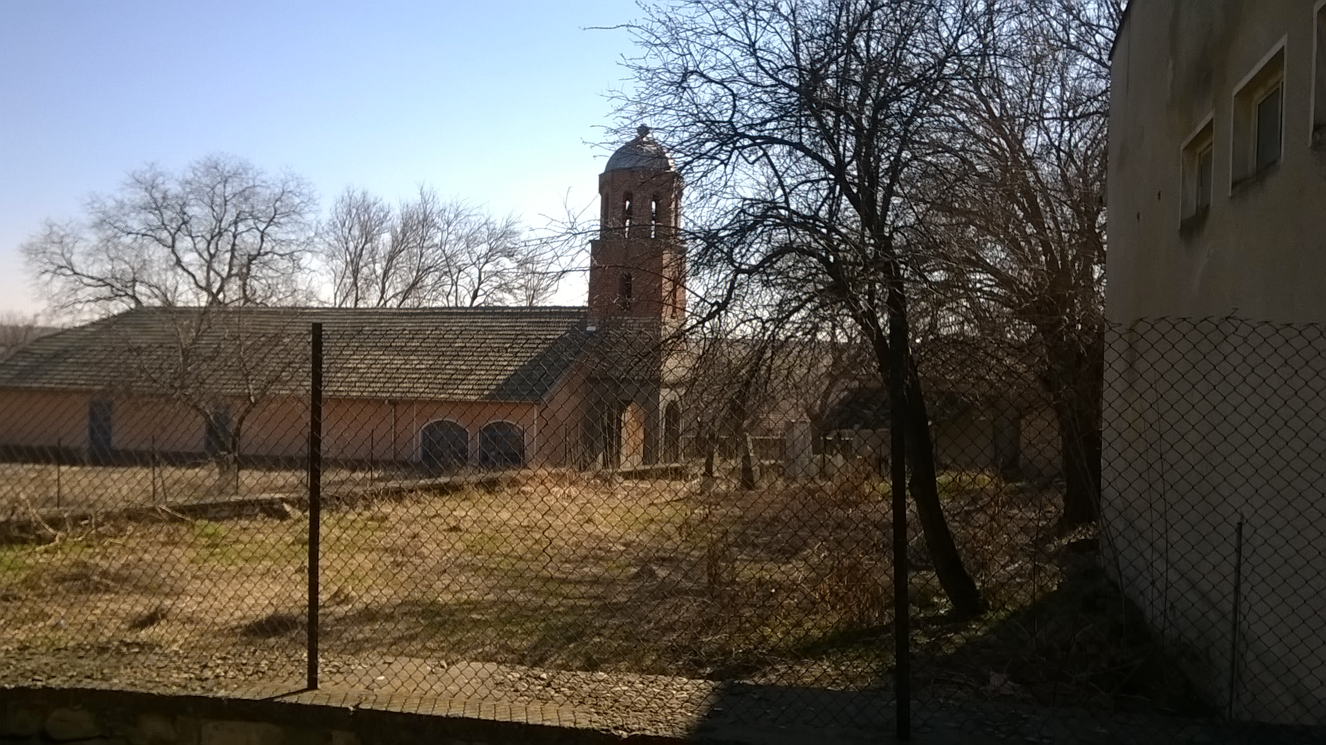 Orthodox Church in Polski Senovetz,Bulgaria taken in 2015